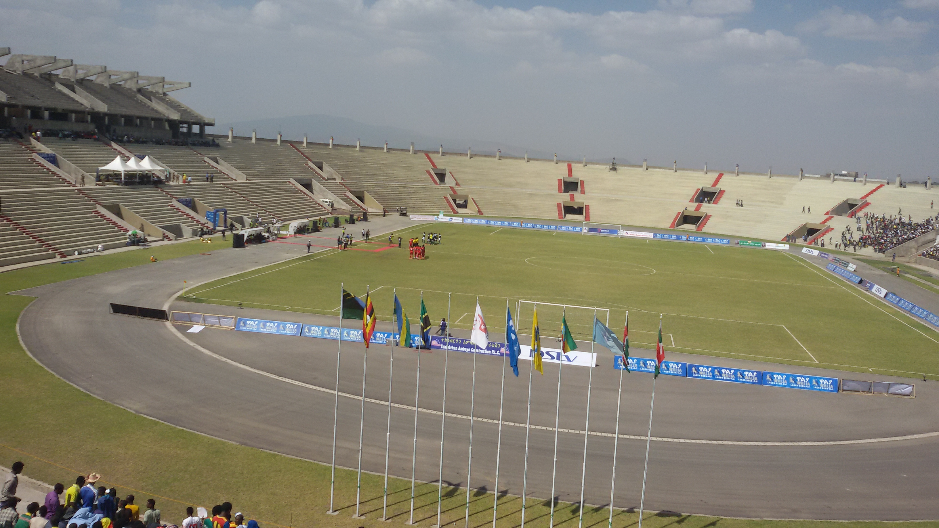 This photo is a depiction of a newly built Hawassa Football stadium, and hosting a play off of football match of east African Countries in 2015, to participate on African Cup. This is an image with the theme "Play" from: Ethiopia